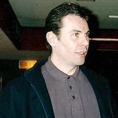 Brian McClair, former Man. United player, in 1992